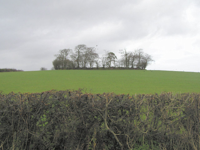 Rath at Shannaragh. It is at the head of a field on the Derrynasher Road after leaving the Shannaragh Road.